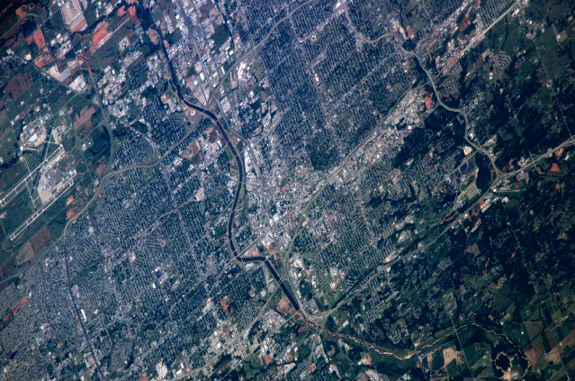 Astronaut Photography of Oklahoma City, Oklahoma taken from the International Space Station (ISS)